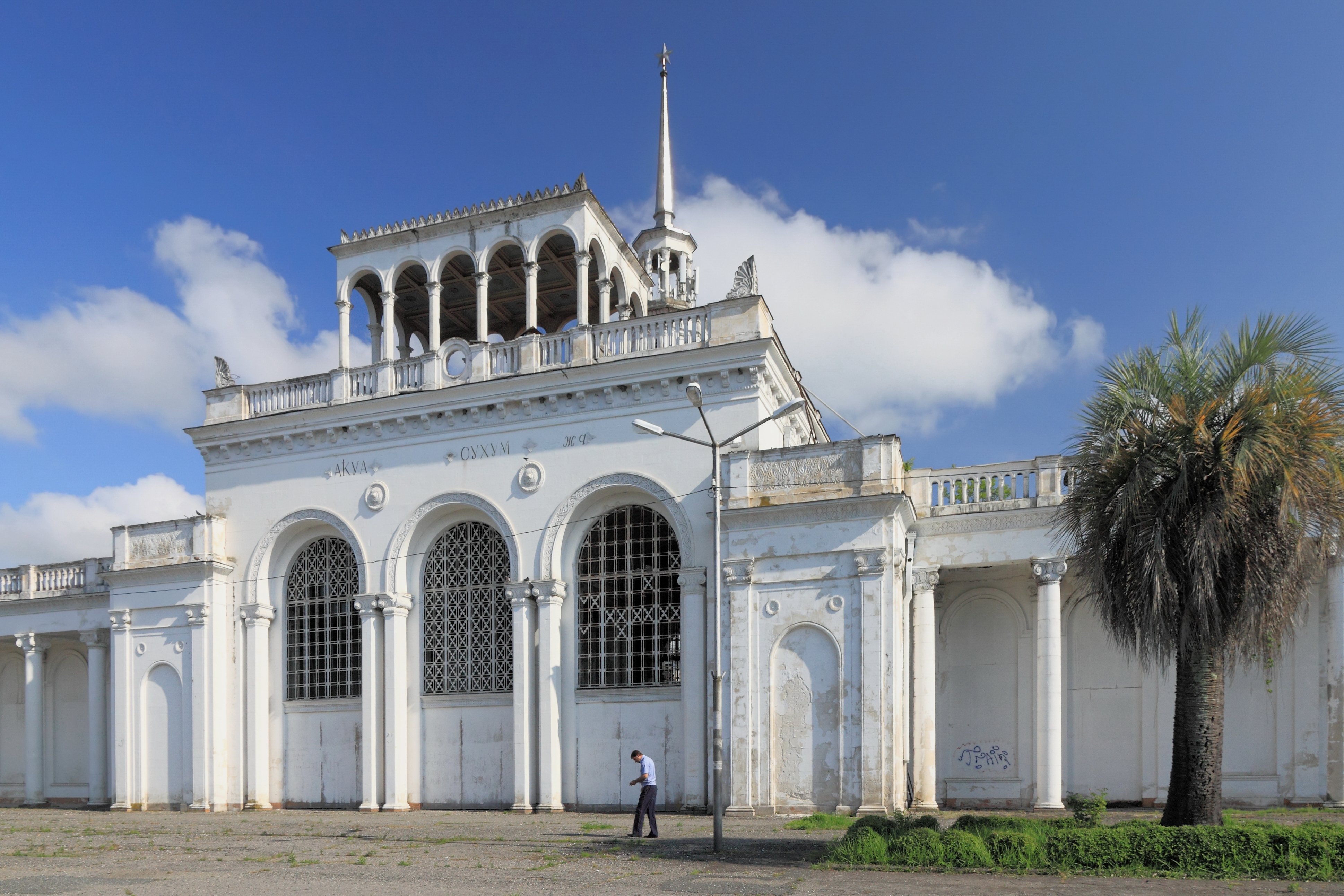 Railway station. Sukhumi, Abkhazia.